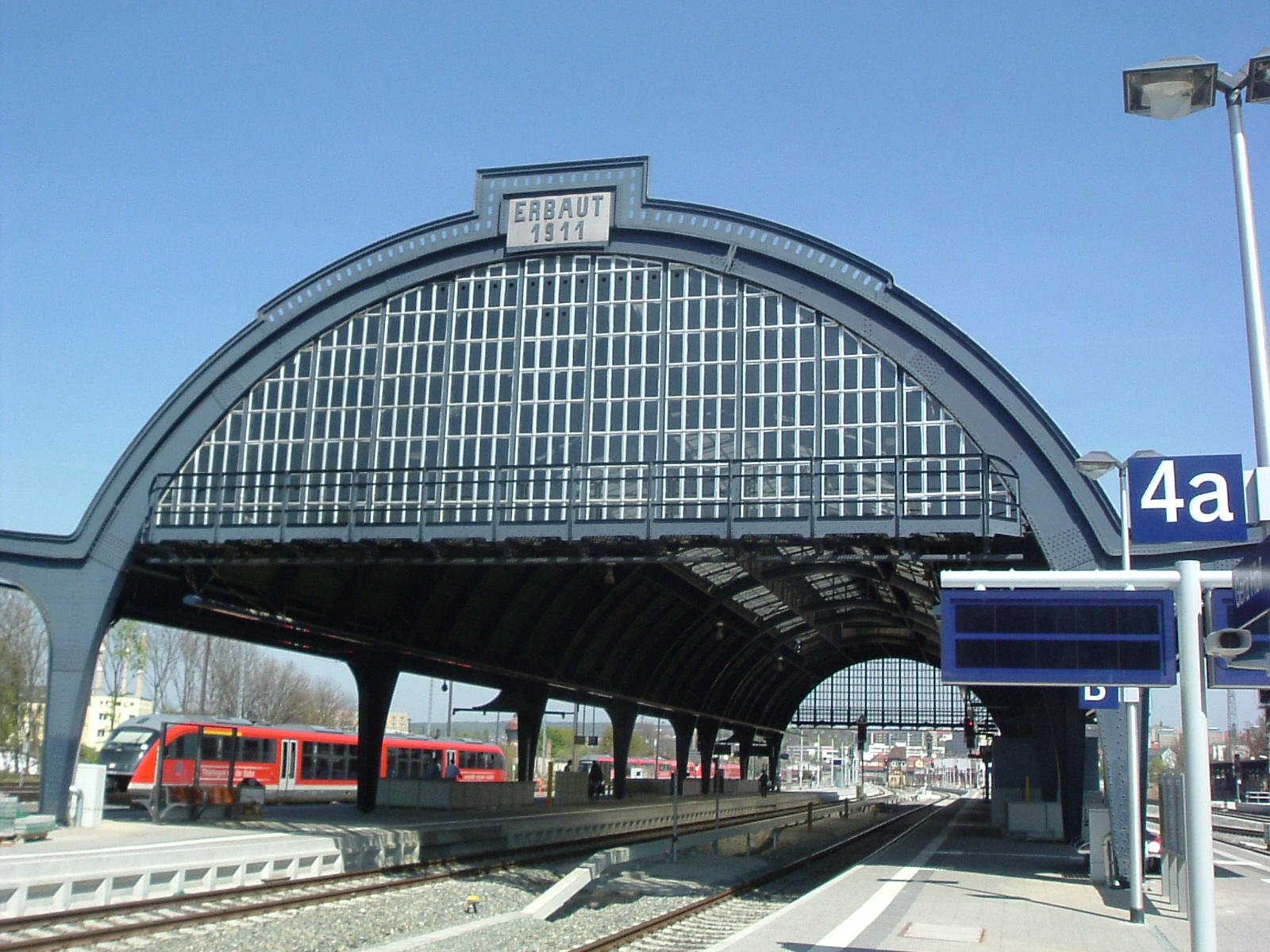 Gera, main station